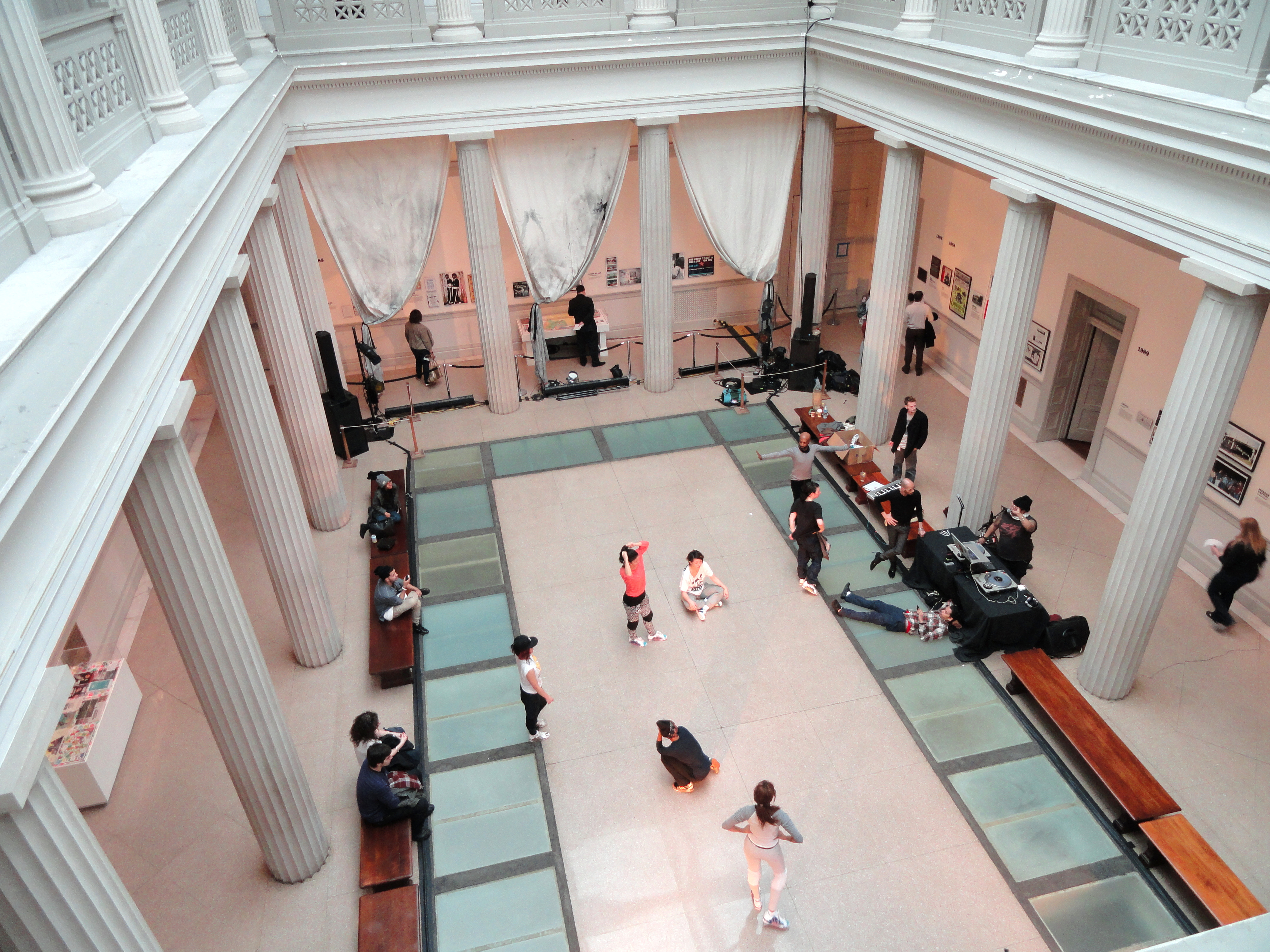 Interior - Corcoran Gallery of Art, Washington, DC, USA.